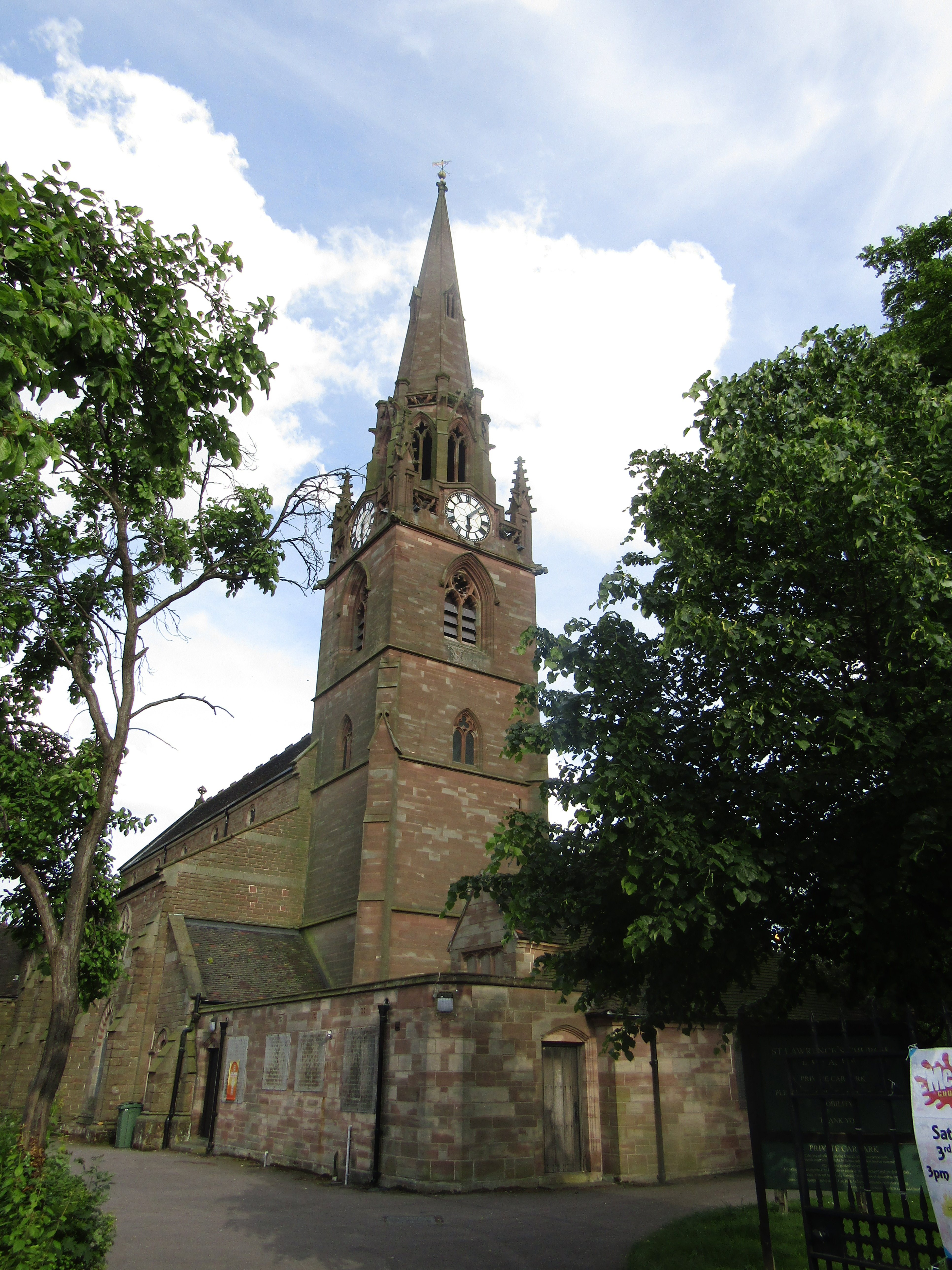 Grade II